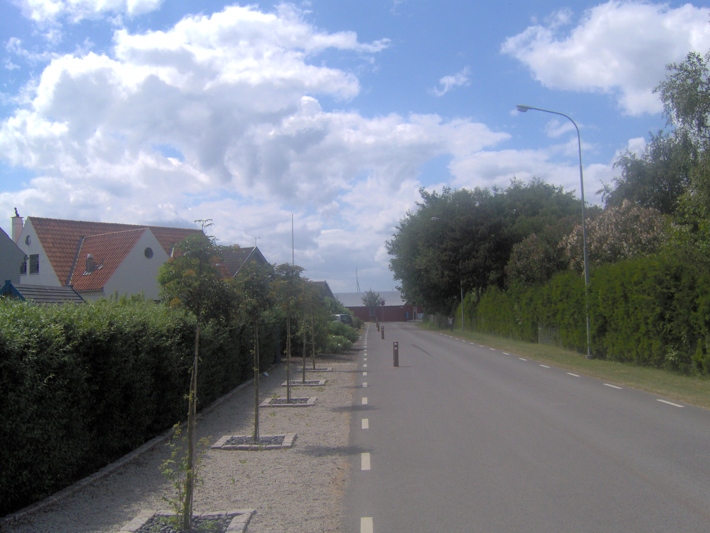 The road towards the harbour of Barsebäckshamn (Barsebäck harbour) Taken by user may 9th 2006